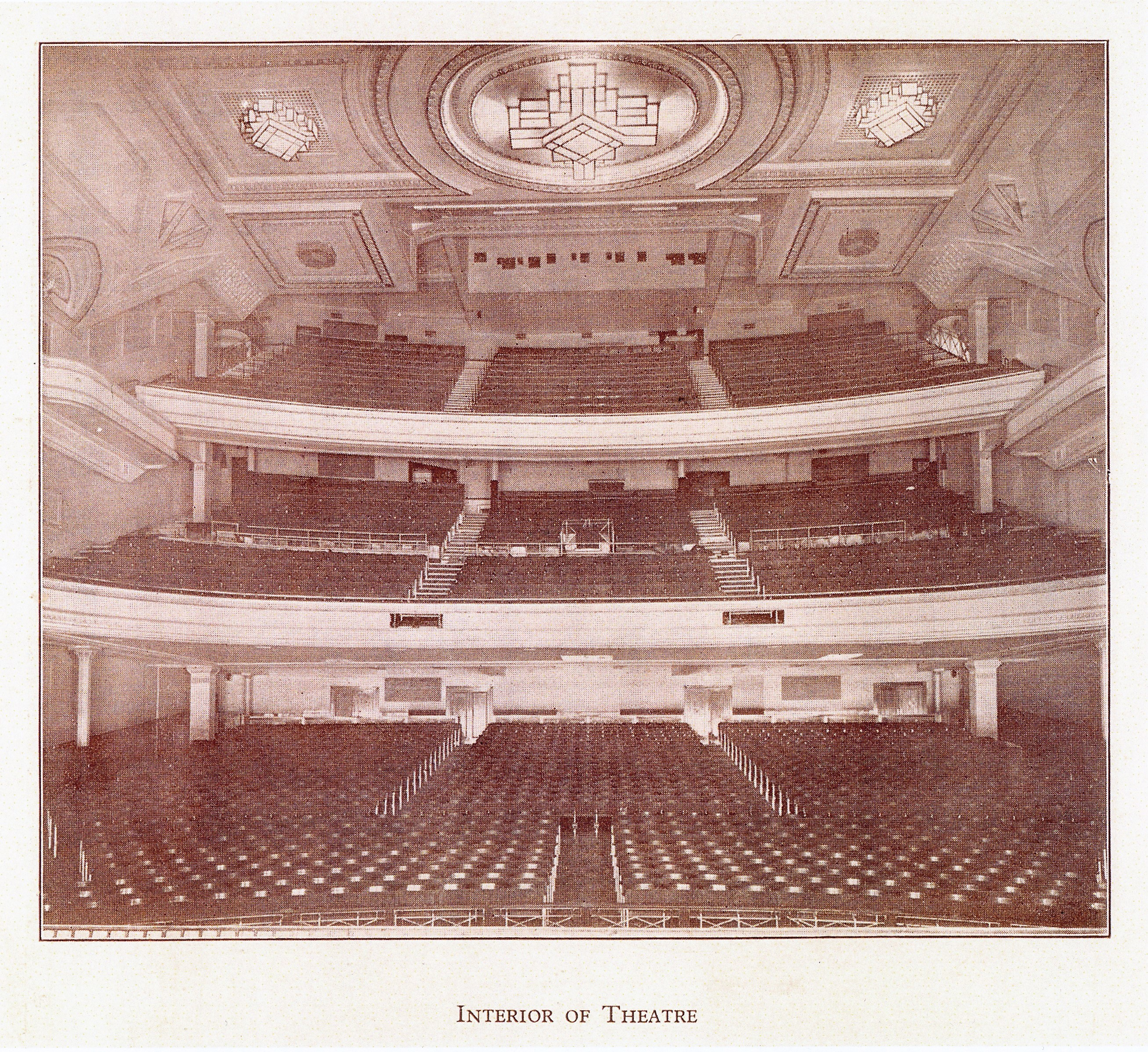 Photo on public brochure issued by Moss Empires Ltd 1931 Company liquidated in 1960s